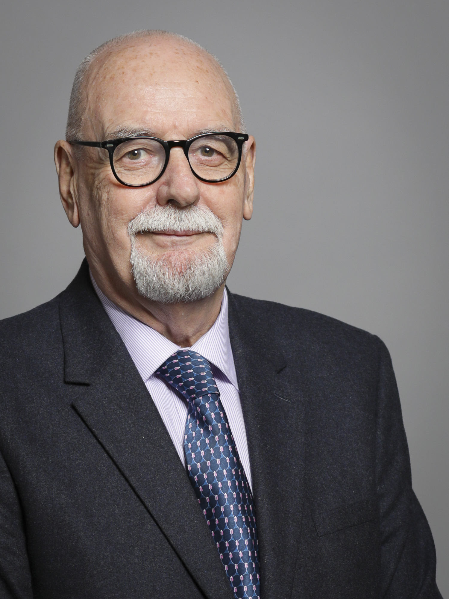 Official portrait of Lord Sawyer 3×4 portrait of Lord Sawyer